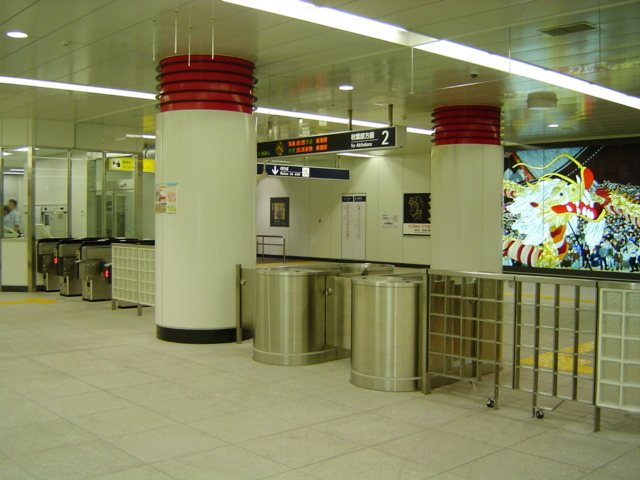 Tsukuba Express Asakusa Station gate.